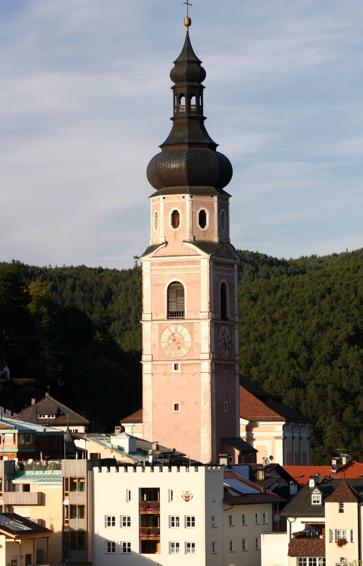 Kastelruth, bell tower of St Peter and Paul Parish Church (built in 1756-58 after a project by Simon Rieder).